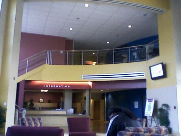 Lobby of the Solano Community College Vallejo satellite campus.